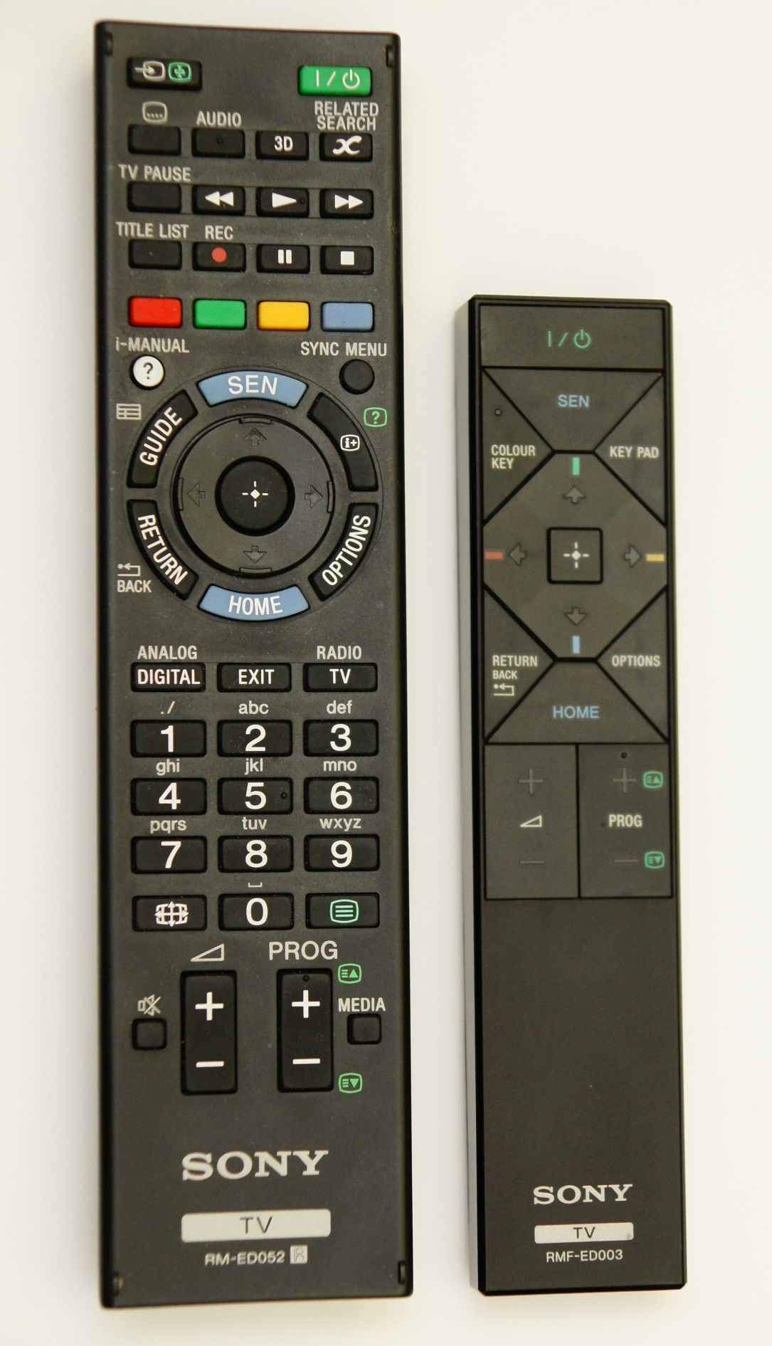 RM-ED052 i RMF-ED003